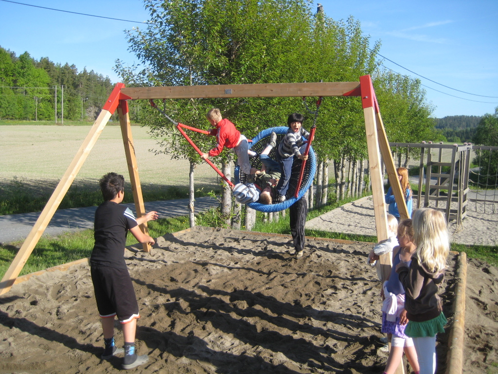 A popular Norwegian children's toy.